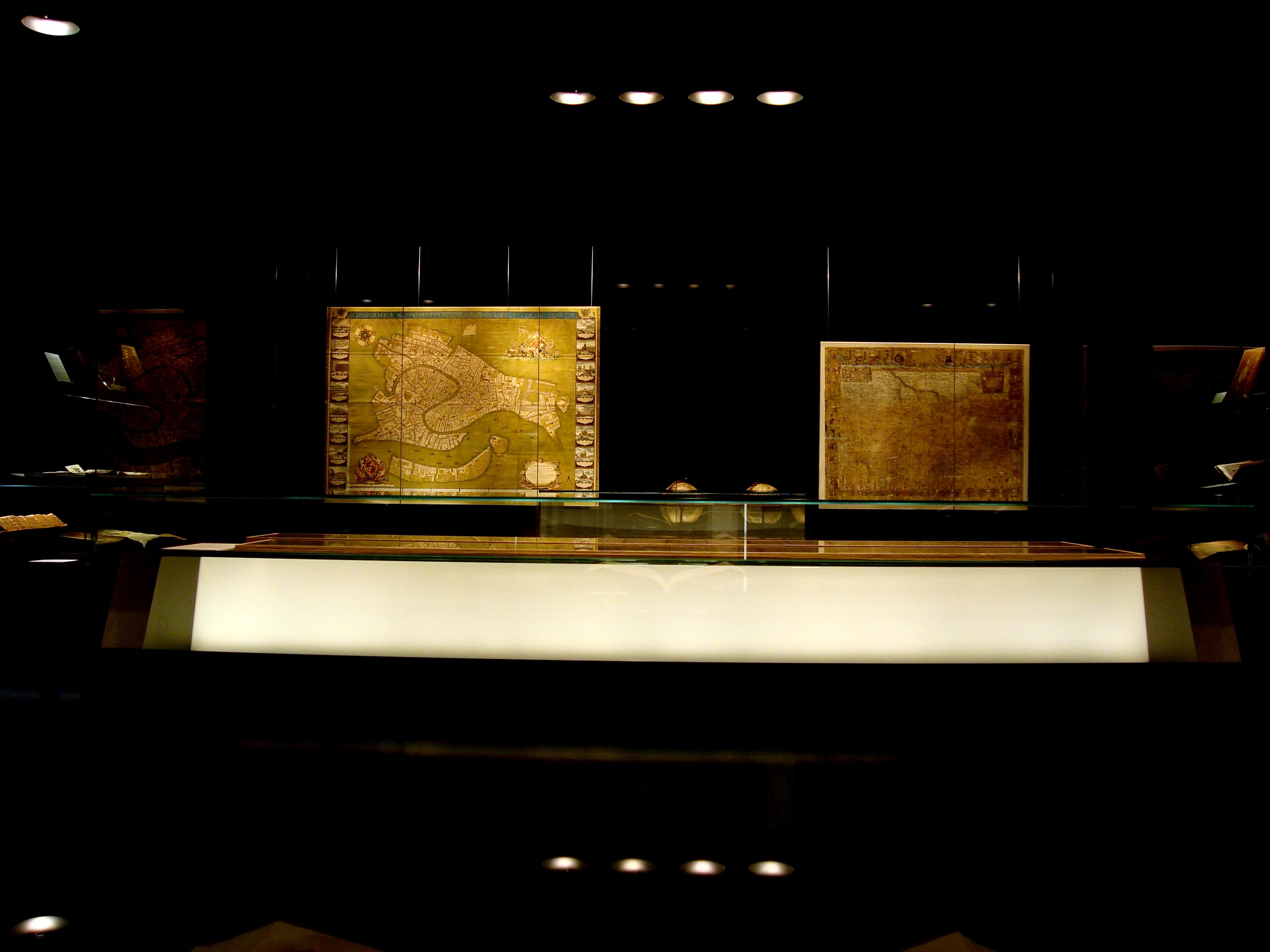 The indoor area of the SLUB.